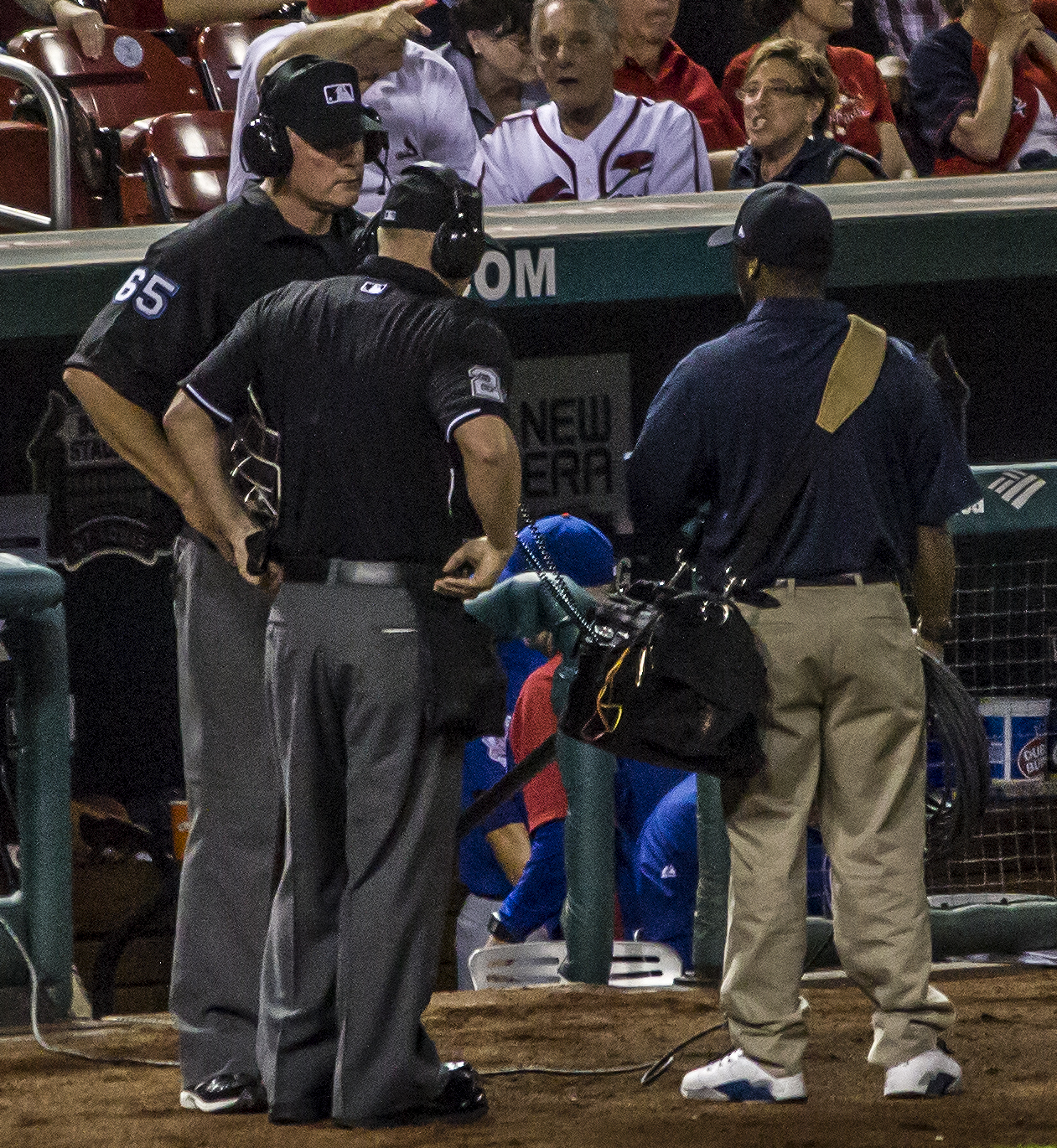 Instant replay in Major League Baseball 2014